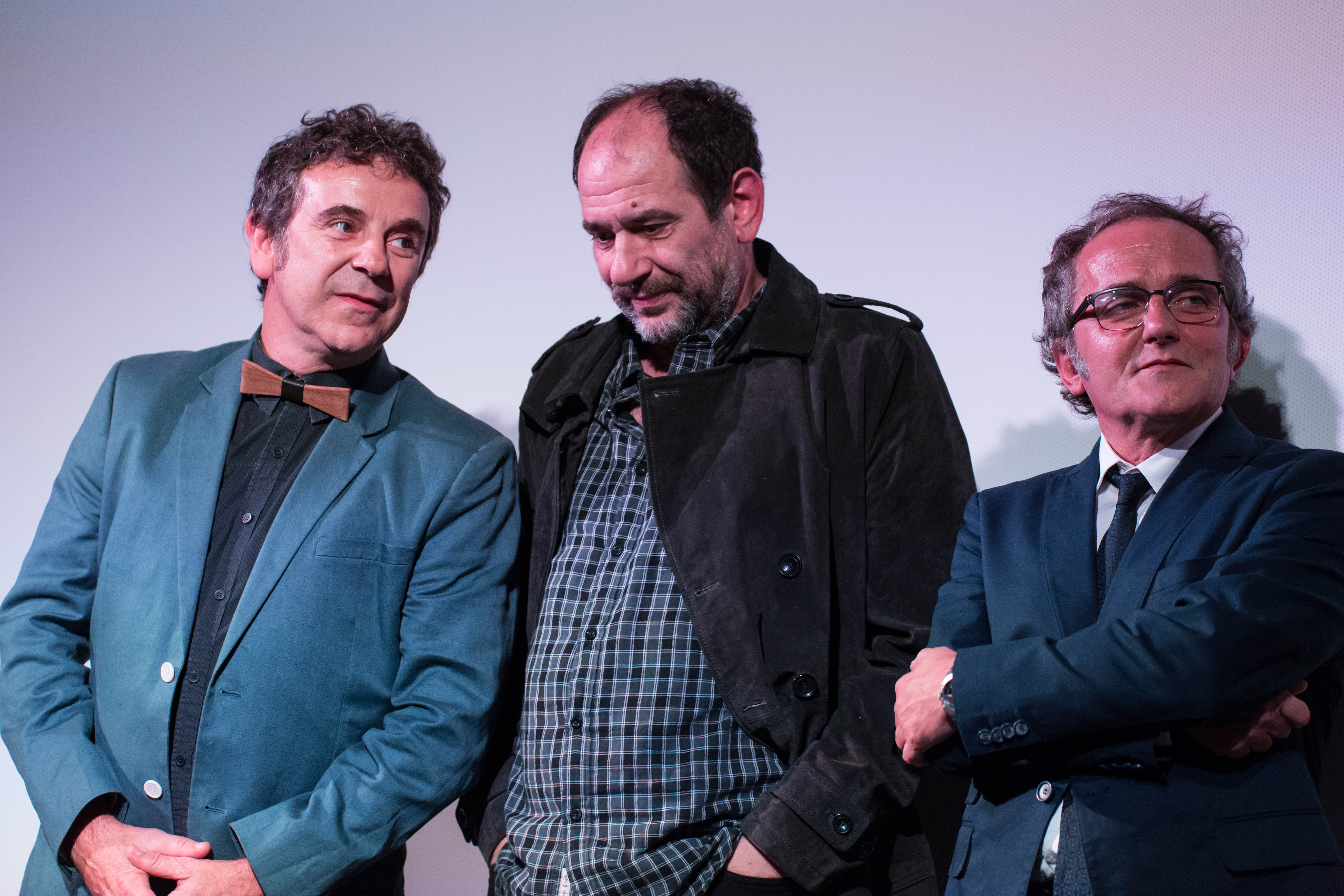 Karra Elejalde, Miguel de Lira and Antonio Durán “Morris” at festival Cinespaña 2015